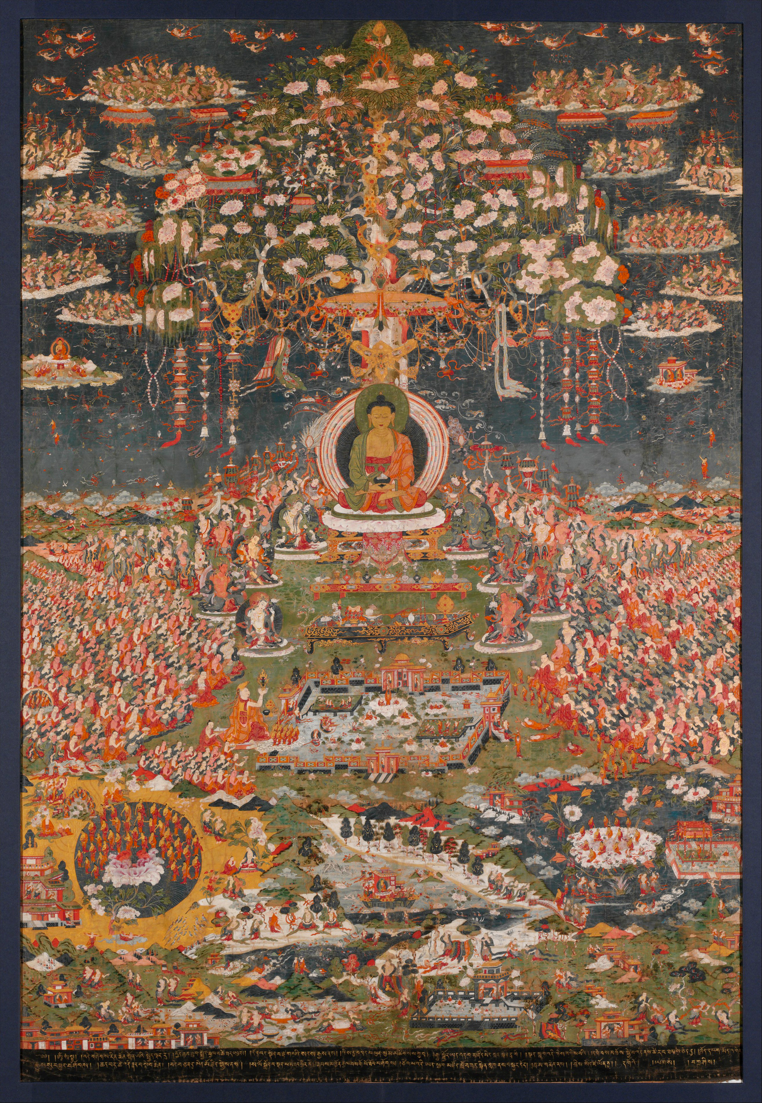 Amitāyus Buddha in His Paradise. Tibet. Distemper with gold on cloth, 56 1/4 x 39 1/2 in. (142.9 x 100.3 cm). Amitayus, the Buddha of Eternal Life, is also known as Amitabha, one of the five Cosmic Buddhas of Esoteric Buddhism. He is shown in his paradise, Sukhavati, the Western Pure Land, enthroned beneath a flowering tree festooned with strands of jewels and auspicious symbols. To either side the sky is filled with throngs of ecstatic demigods who bear offerings and scatter flowers. Seated below are the eight great bodhisattvas, and between them are two large, low tables covered with offerings. To either side are the vast assembled audiences who receive Amitayus’s message. At the bottom, set within a vast panoramic landscape, are courtyards, giant lotus flowers, and pools from which the purified are being reborn.